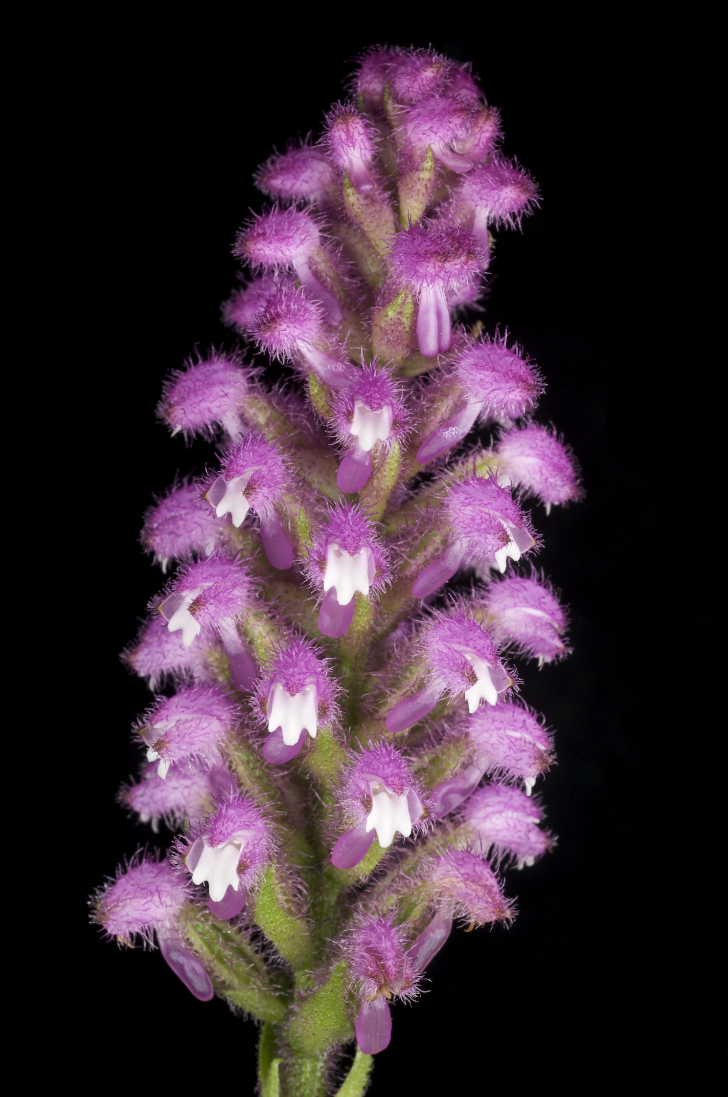 Species from Madagascar Grown by Cindy Hill